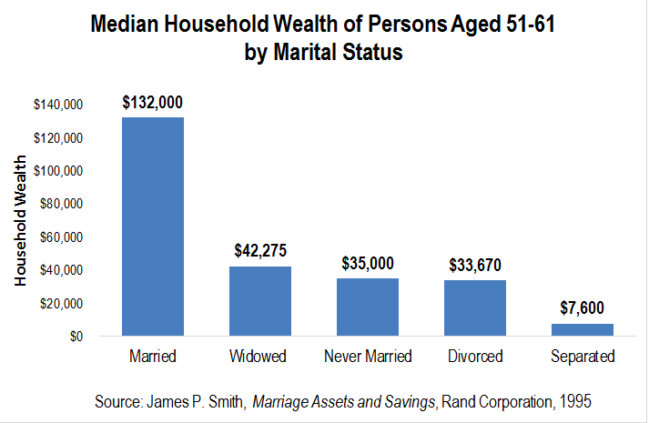 Data of Median Household Wealth of Persons Aged 51-61 by Marital Status